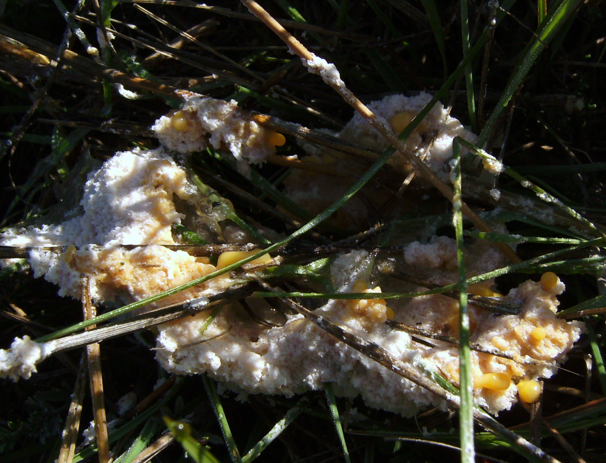 "Mucilago crustacea" (slime mold) opened for internal view, Castelltallat, Catalonia